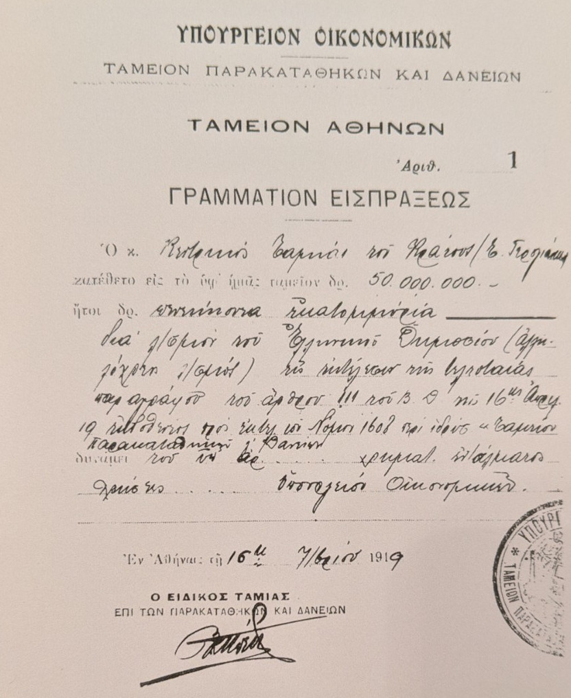 First bill of exchange of the Consignment Deposit And Loans Fund, Athens, Greece - 1919